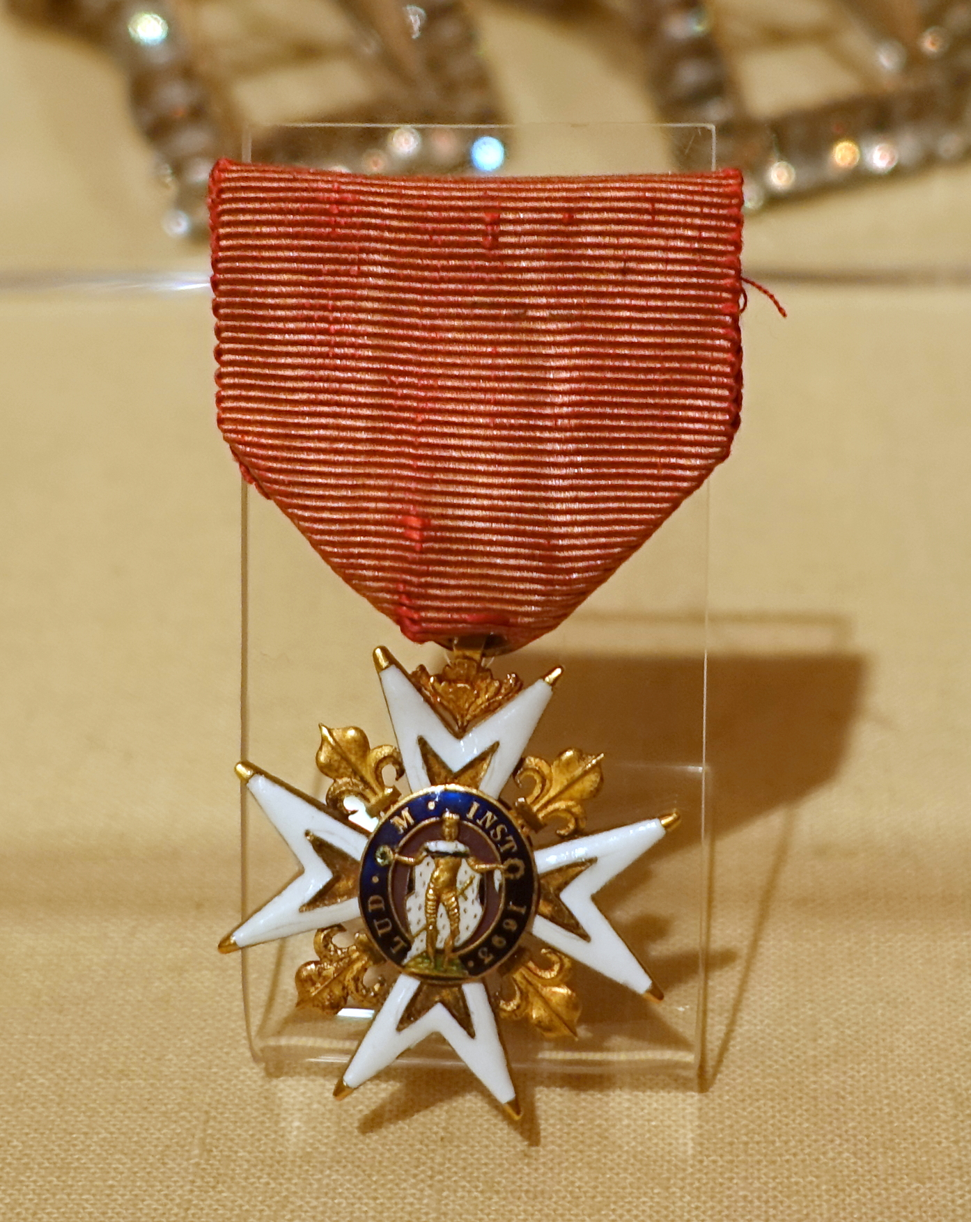 Exhibit in the Château Ramezay - Montreal, Quebec, Canada.